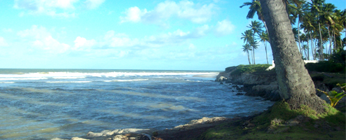 Pitimbue Beach